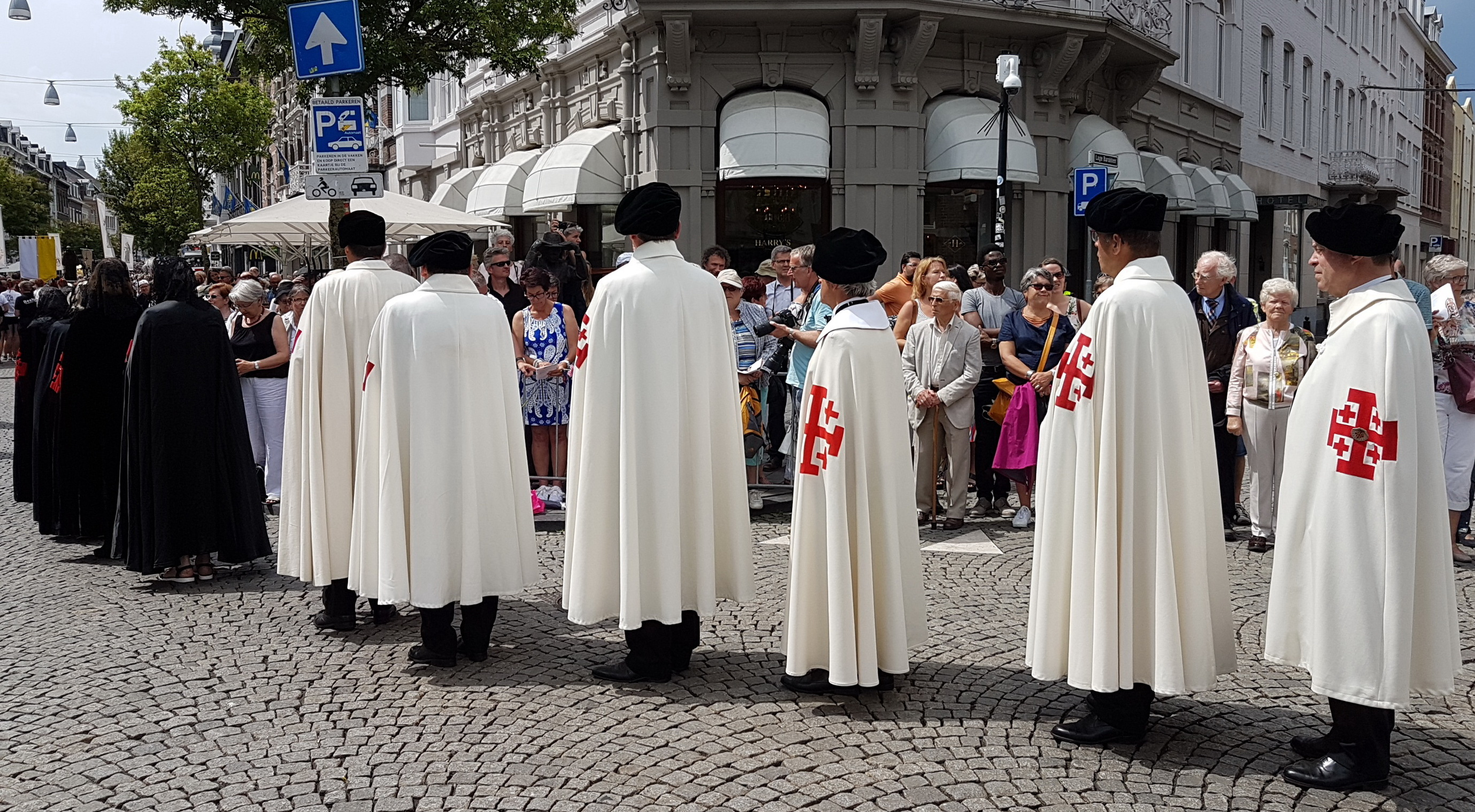 Participants in a historic religious procession during the 2018 Heiligdomsvaart (Relics Pilgrimage) in Maastricht, Netherlands. The history of this seven-yearly catholic pilgrimage goes back to the Middle Ages. The first 'modern' version took place in 1874. On both Sundays of the 10-day festival, a procession is held in which the main relics and other devotional objects are exhibited. This photo was taken in Stationsstraat during the (first) procession on Sunday 27 May 2018. This particular group consists of members of the Roman Catholic Order of the Holy Sepulchre.